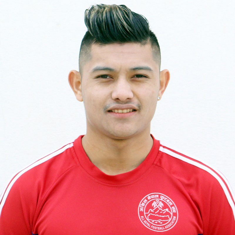 Portrait of Bimal Gharti Magar by Subas Humagain